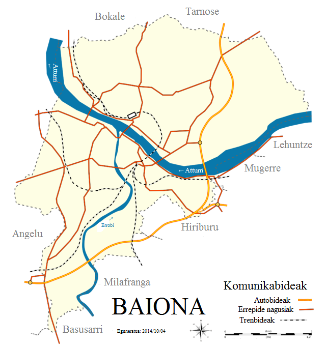 Neighboring towns of Bayonne. Labourd, Basque Country.